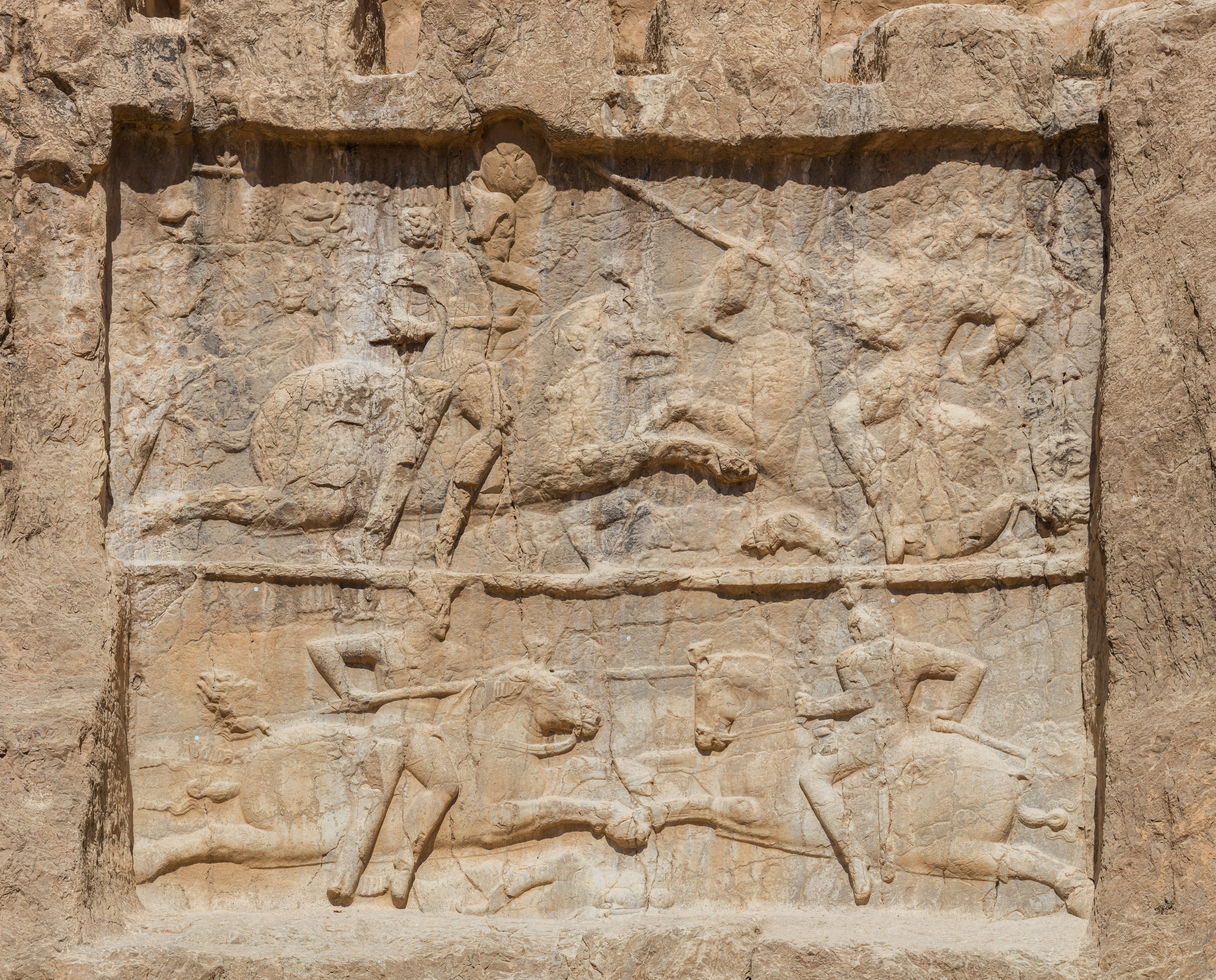 Naghsh-e rostam, Iran